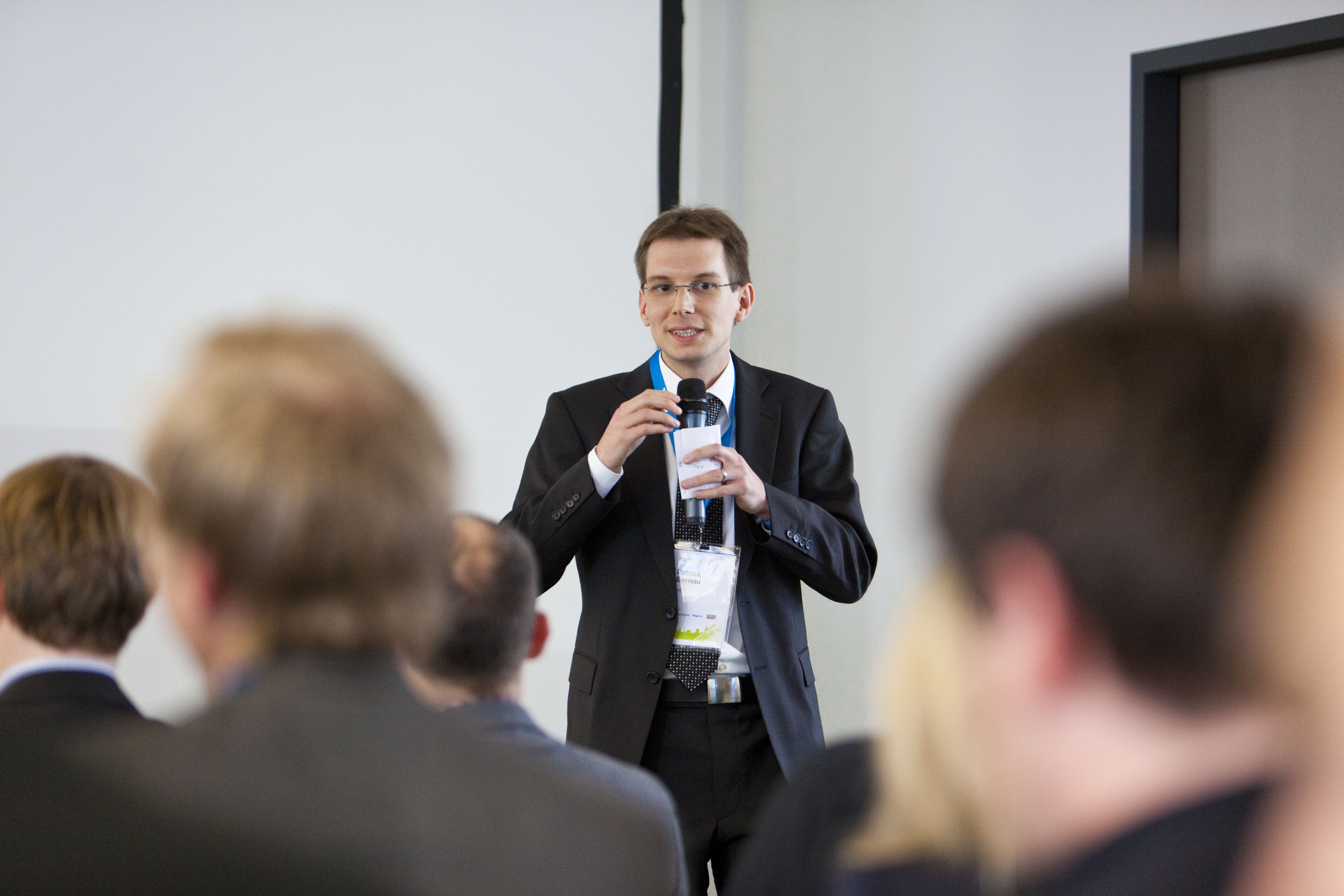 Patrick Bernau, FAS, at NEXT Finance